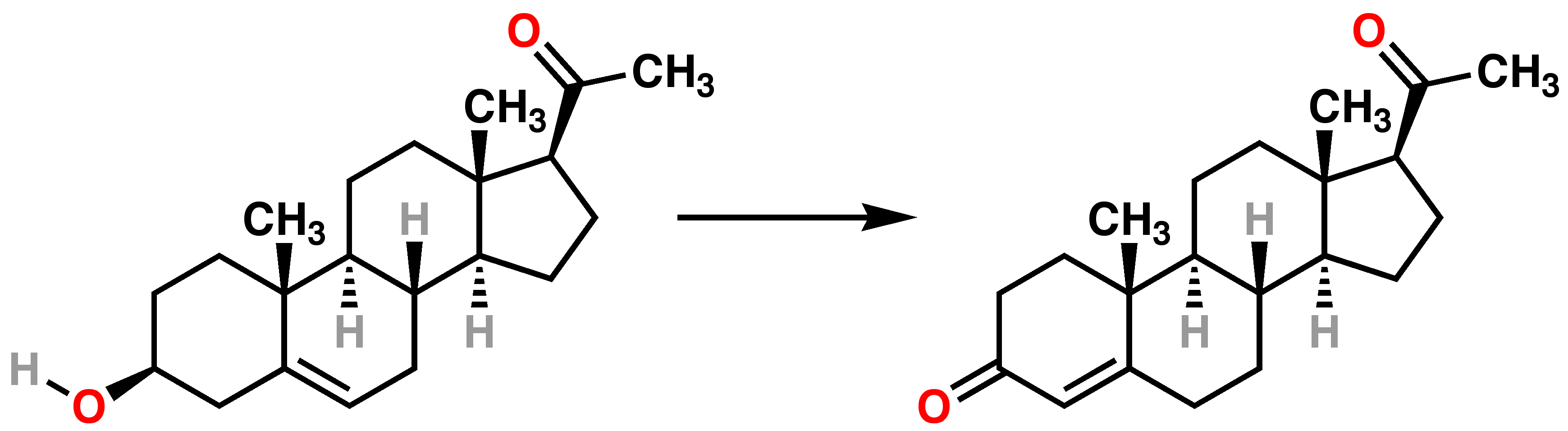 Created myself using ChemDraw based on previous version of graphic.